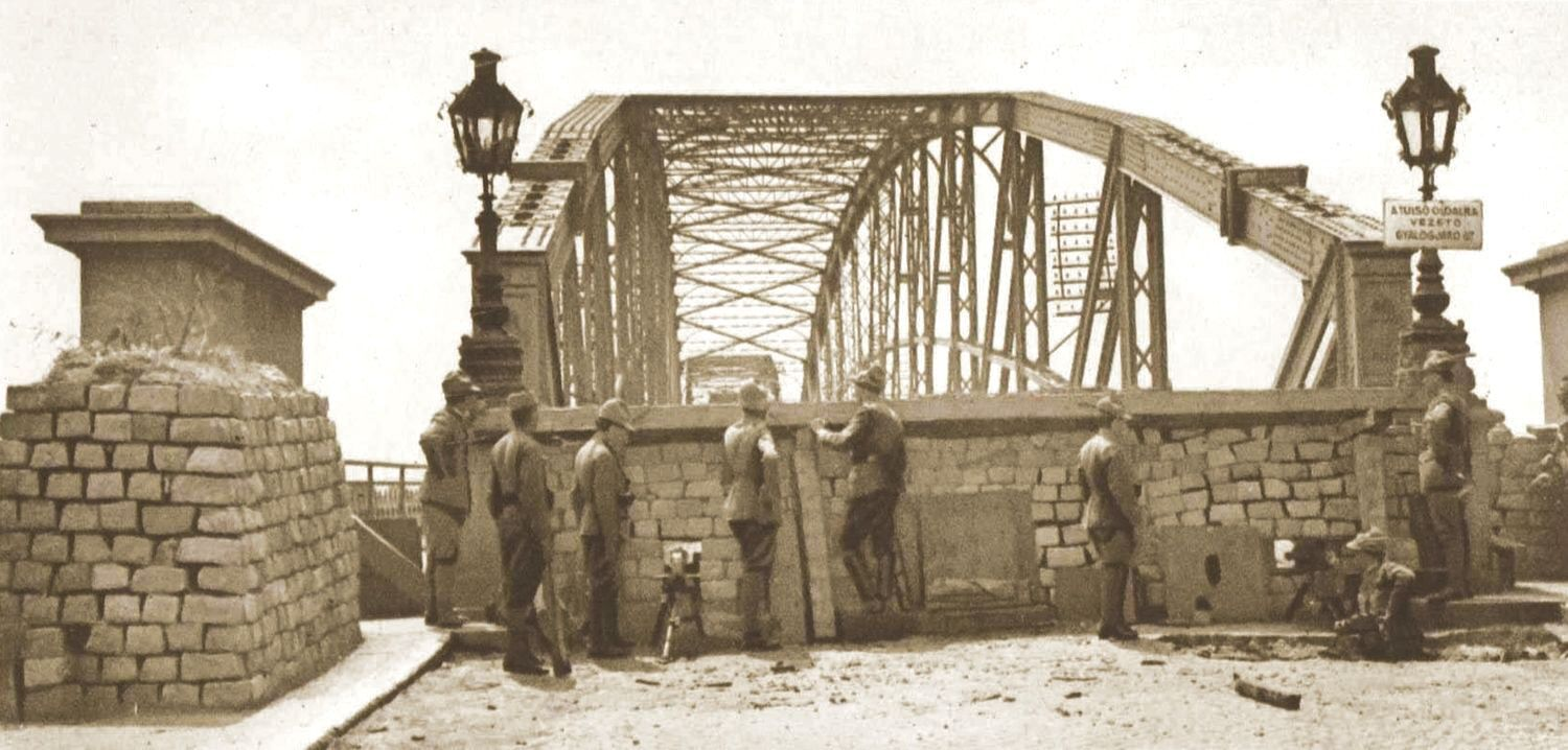 Czechoslovak patrol on a bridge in Komárno.